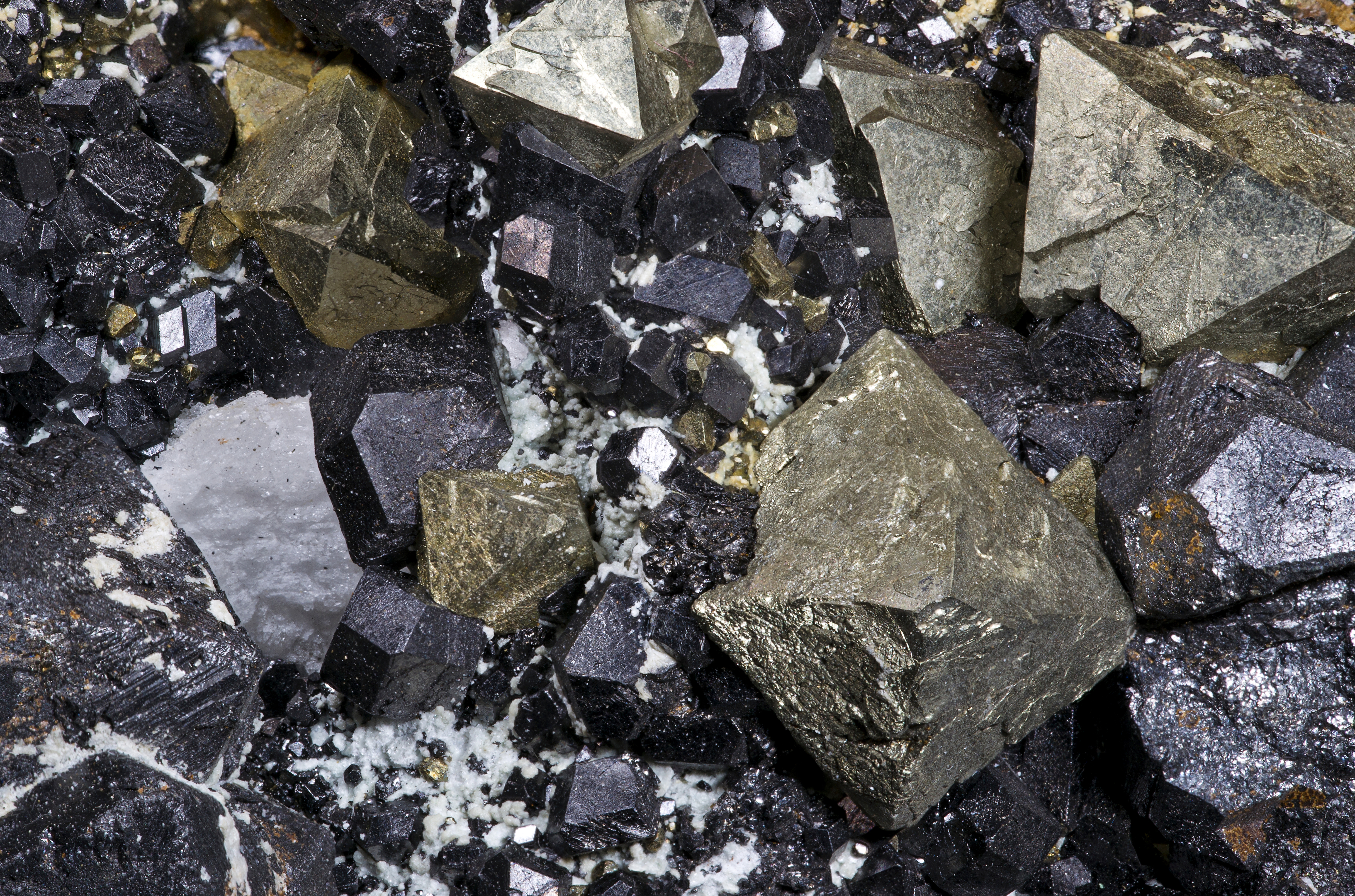 Group of rhombododecahedral {110} magnetite crystals with octahedral {111} pyrite Locality : Brosso Mine, Cálea, Léssolo, Canavese District, Torino Province, Piedmont, Italy Size : 11.2x7.9x4.2 cm - xls Magnetite 1.6 cm; xls Pyrite1.9 cm - Specimen mined year 1979 Salvere section.